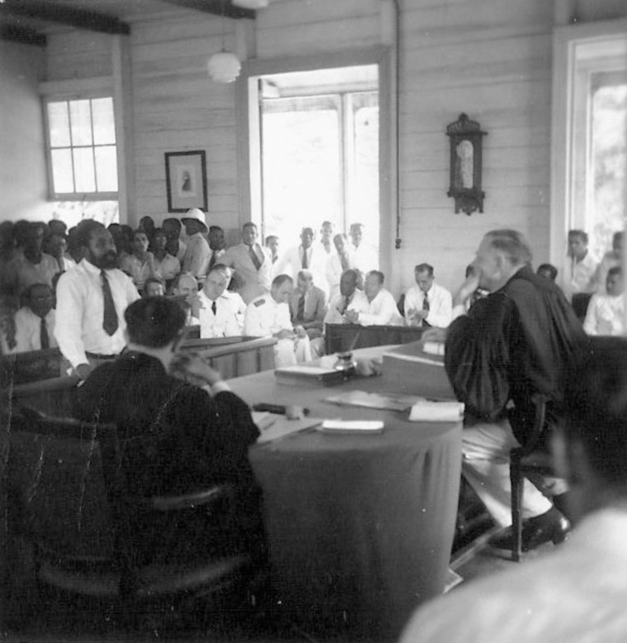 Simon Sanches tijdens rechtszaak in 1948